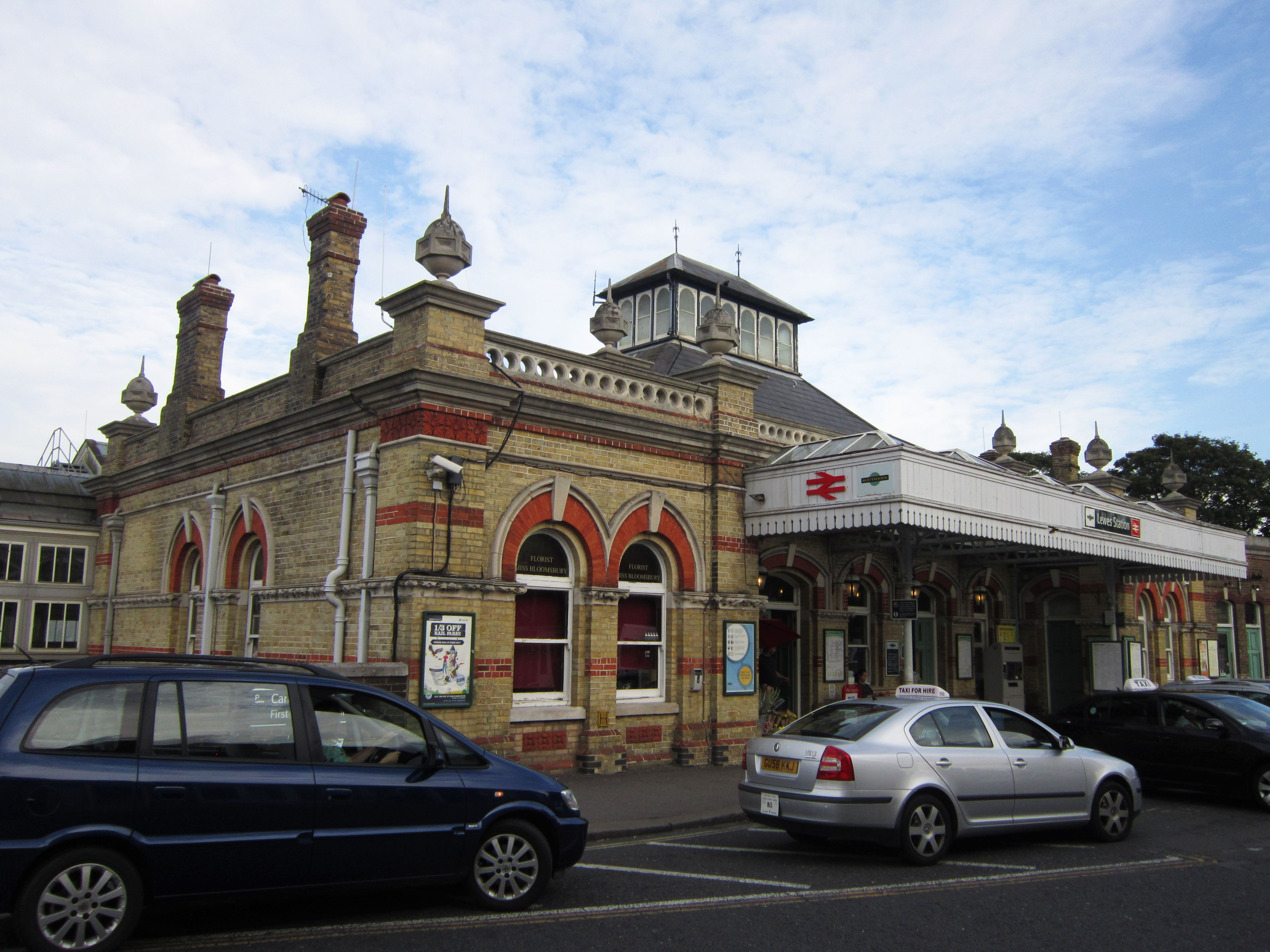 Lewes railway station facade